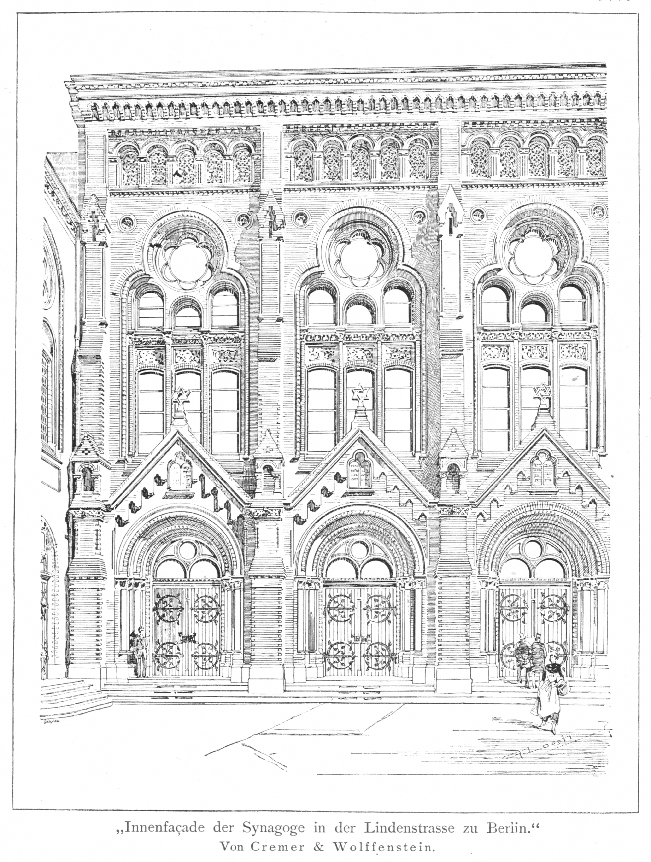 Berlin, interior view of synagogue in Berlin, Lindenstrasse